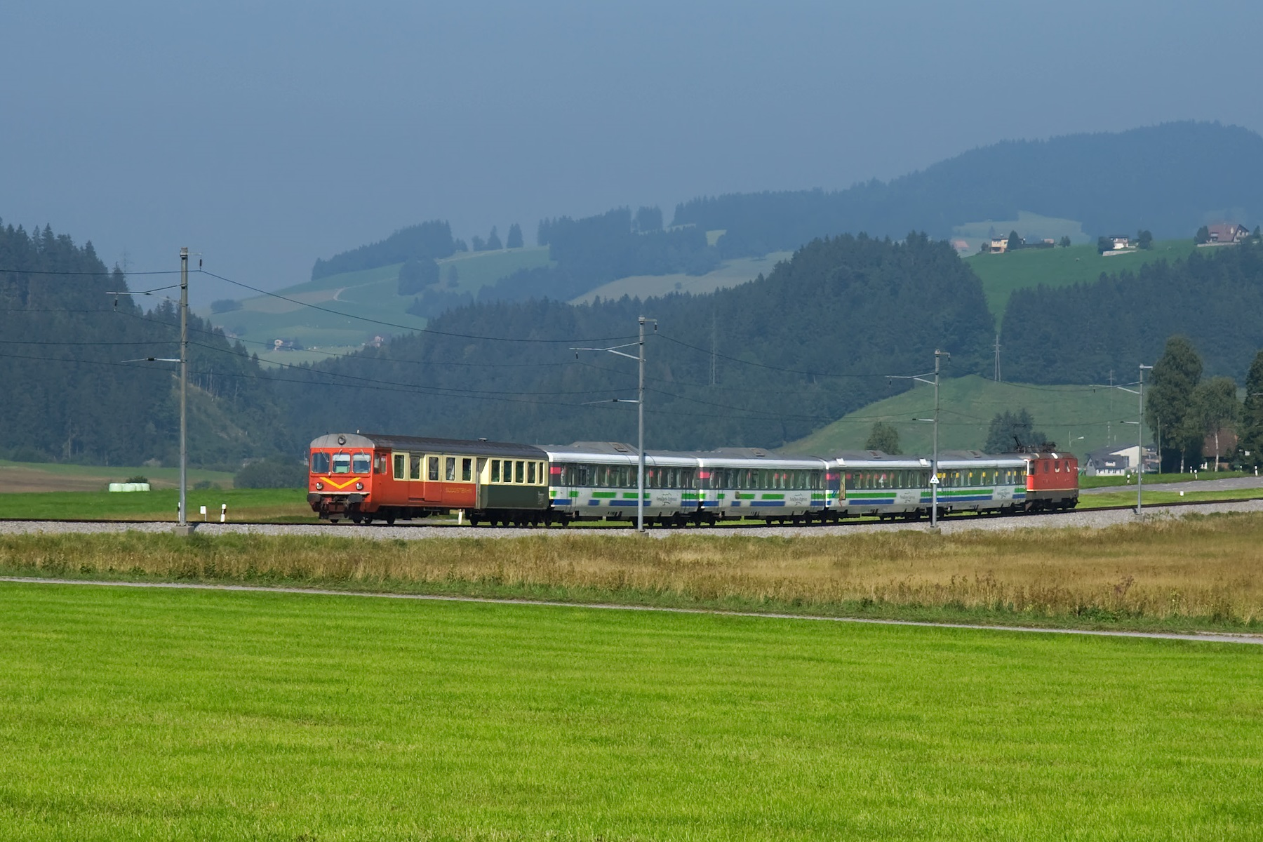 Voralpen-Express pushed by an SBB Re 420 between Biberbrugg and Rothenthurm.